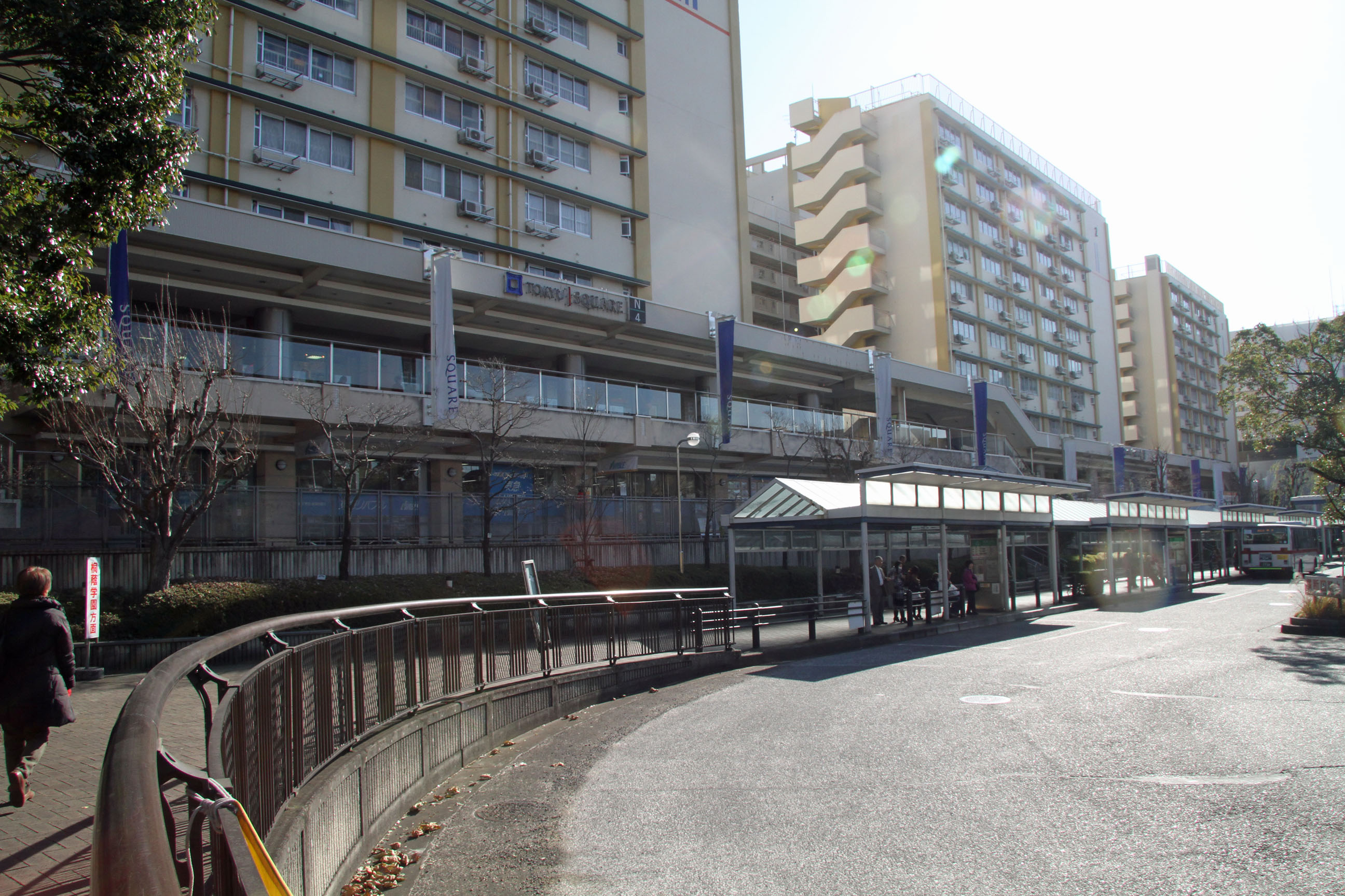 Aobadai Tokyu Square (N-4, N-3, N-2 building from left), Aoba-ku, Yokohama, Kanagawa, Japan